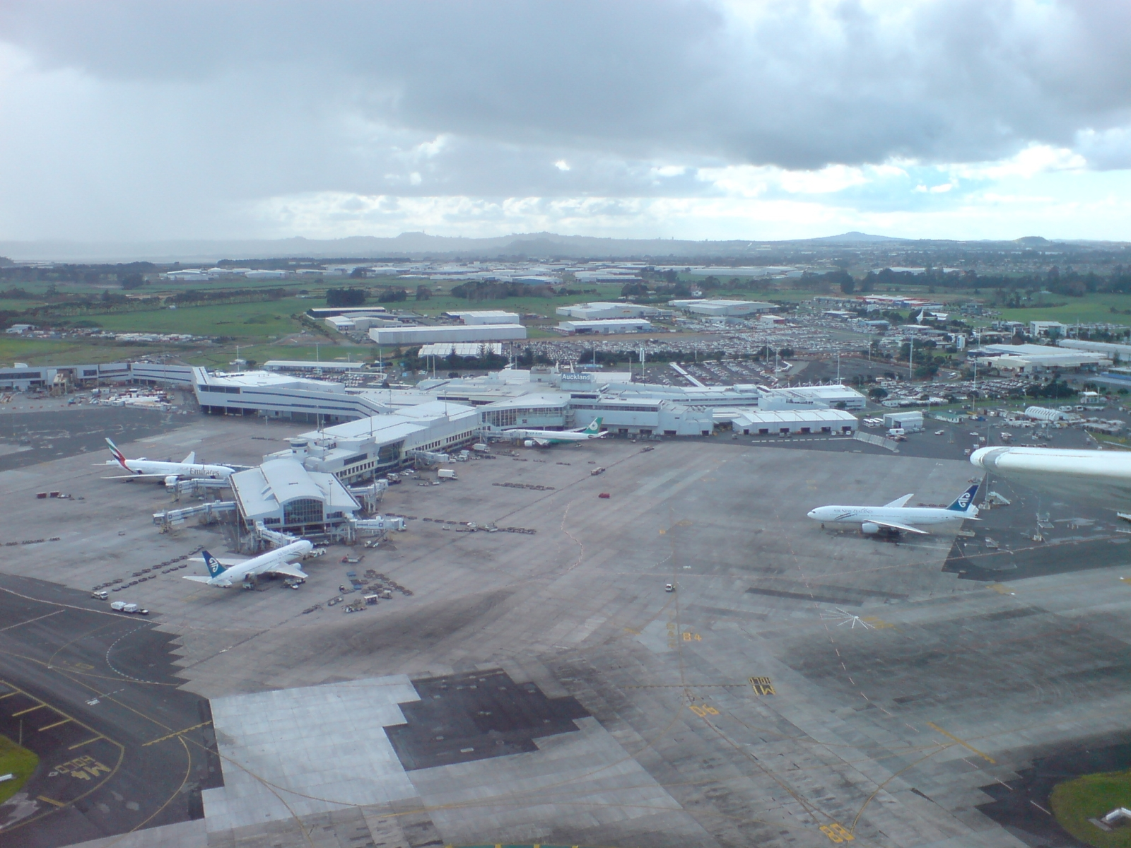 Views over Auckland International Airport, Auckland City, New Zealand, taking from a light plane taking off for Great Barrier Island westwards, then circling around to the north and east in the image series.